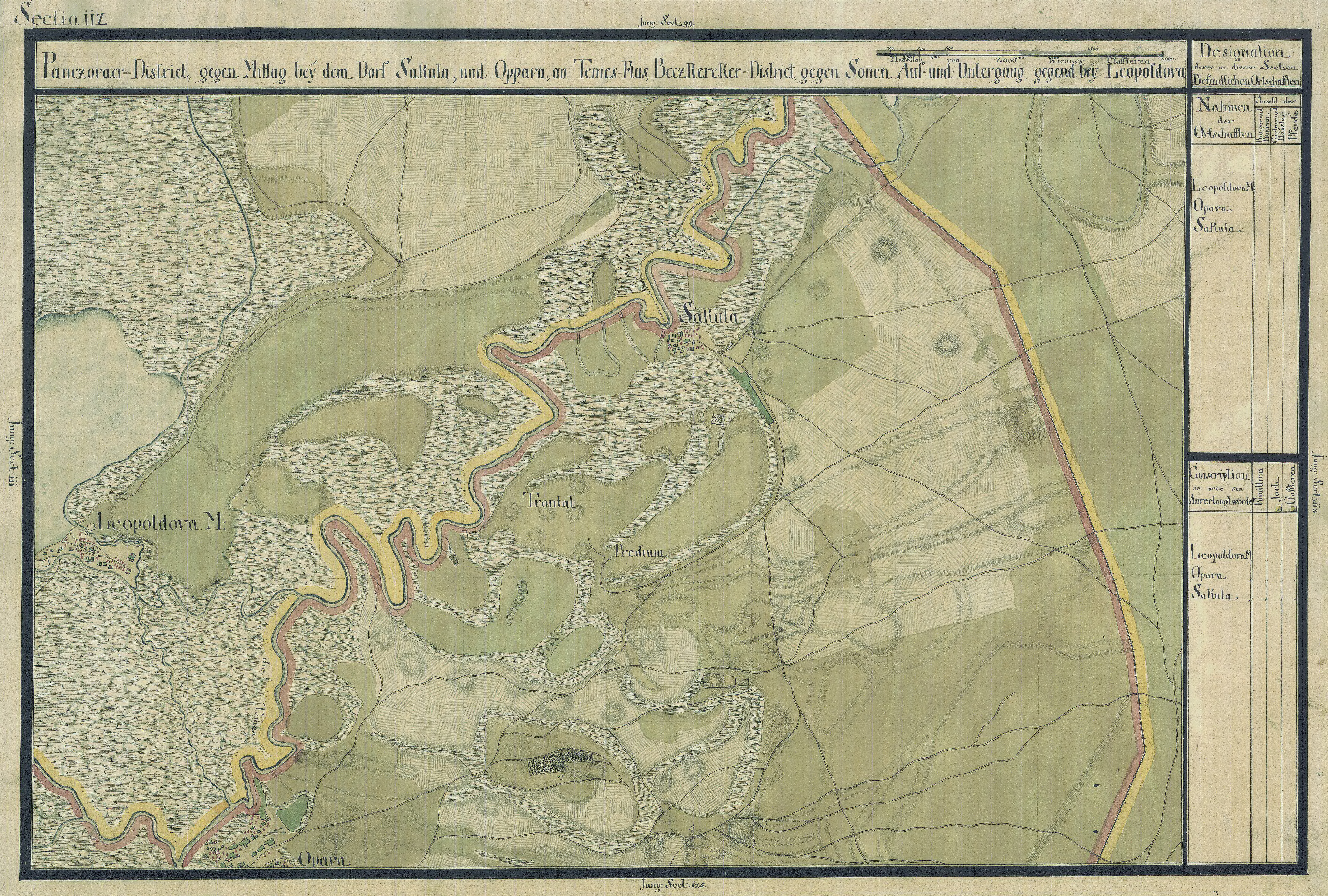 The Banat region in the cadastral maps: Josephinische Landesaufnahme, 1769-72. Josephinische Landaufnahme pg112